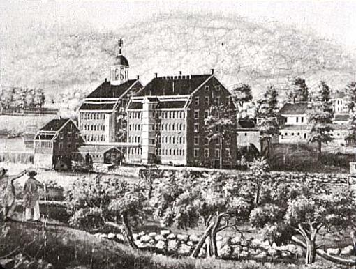 Boston Manufacturing Company, 1813-1816, Waltham, MA.